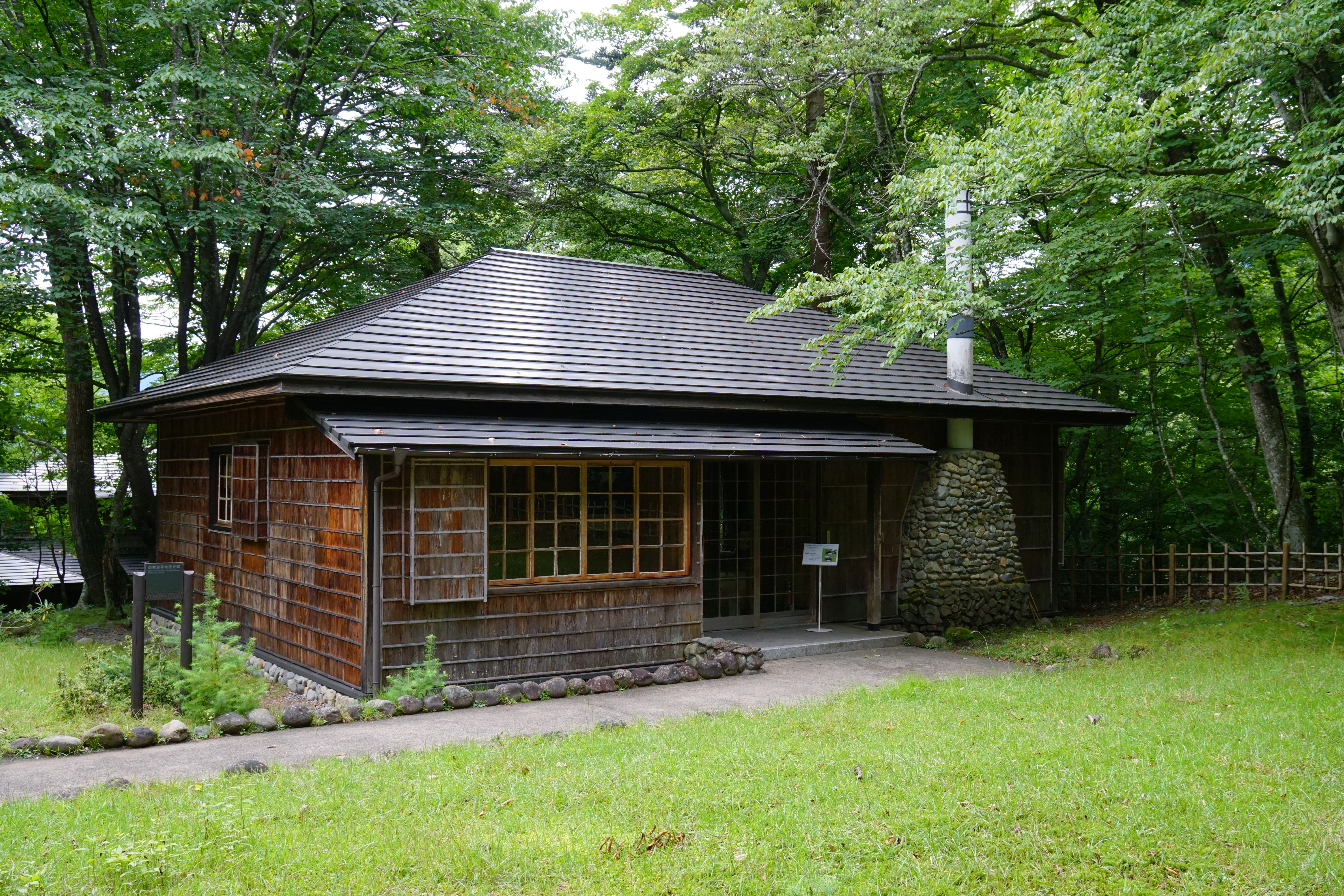 Italian_Embassy_Villa_Memorial_Park in Nikko, Tochigi prefecture, Japan